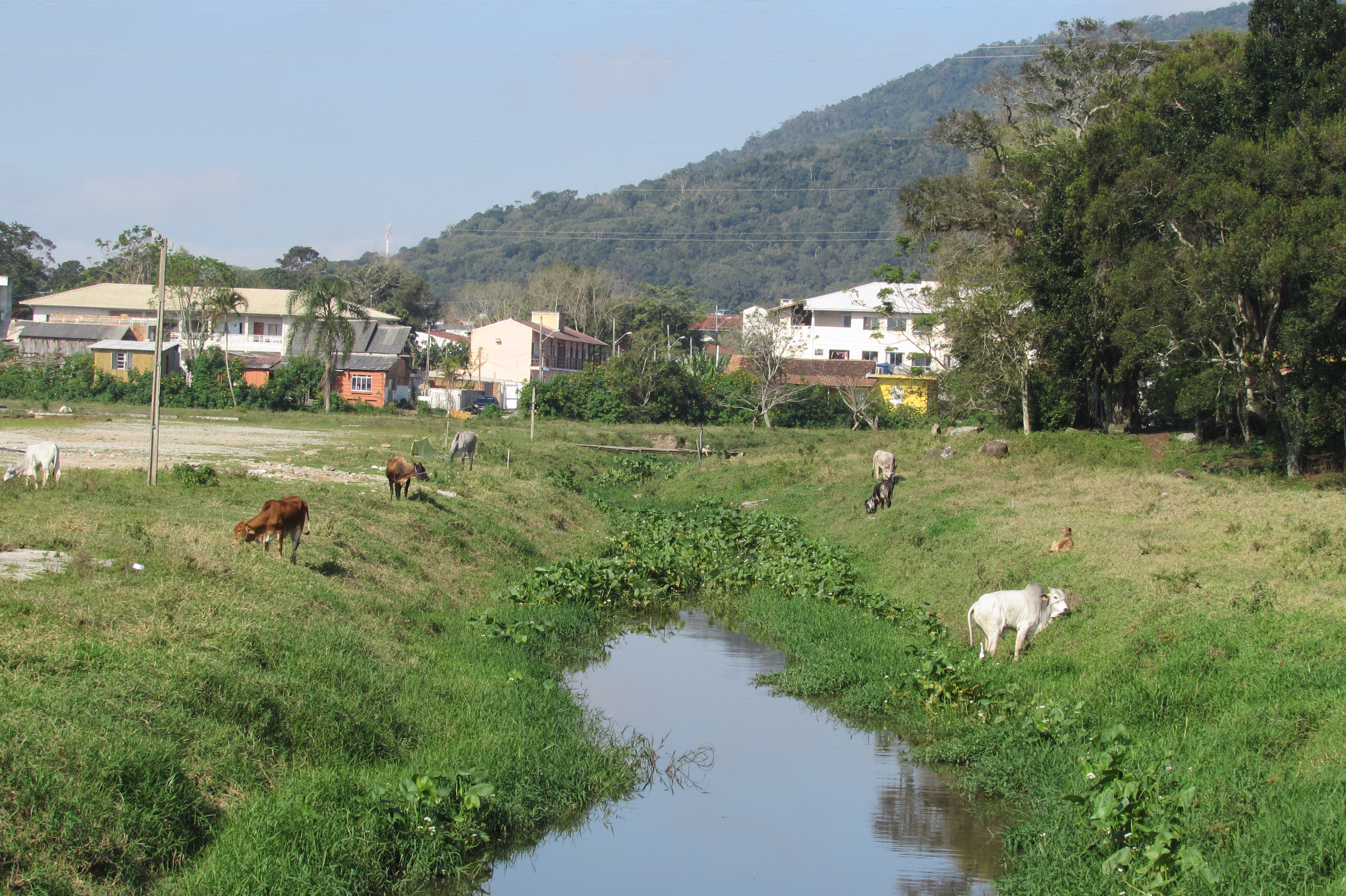 Palha river, located in the north of Florianópolis, at setember of 2018.